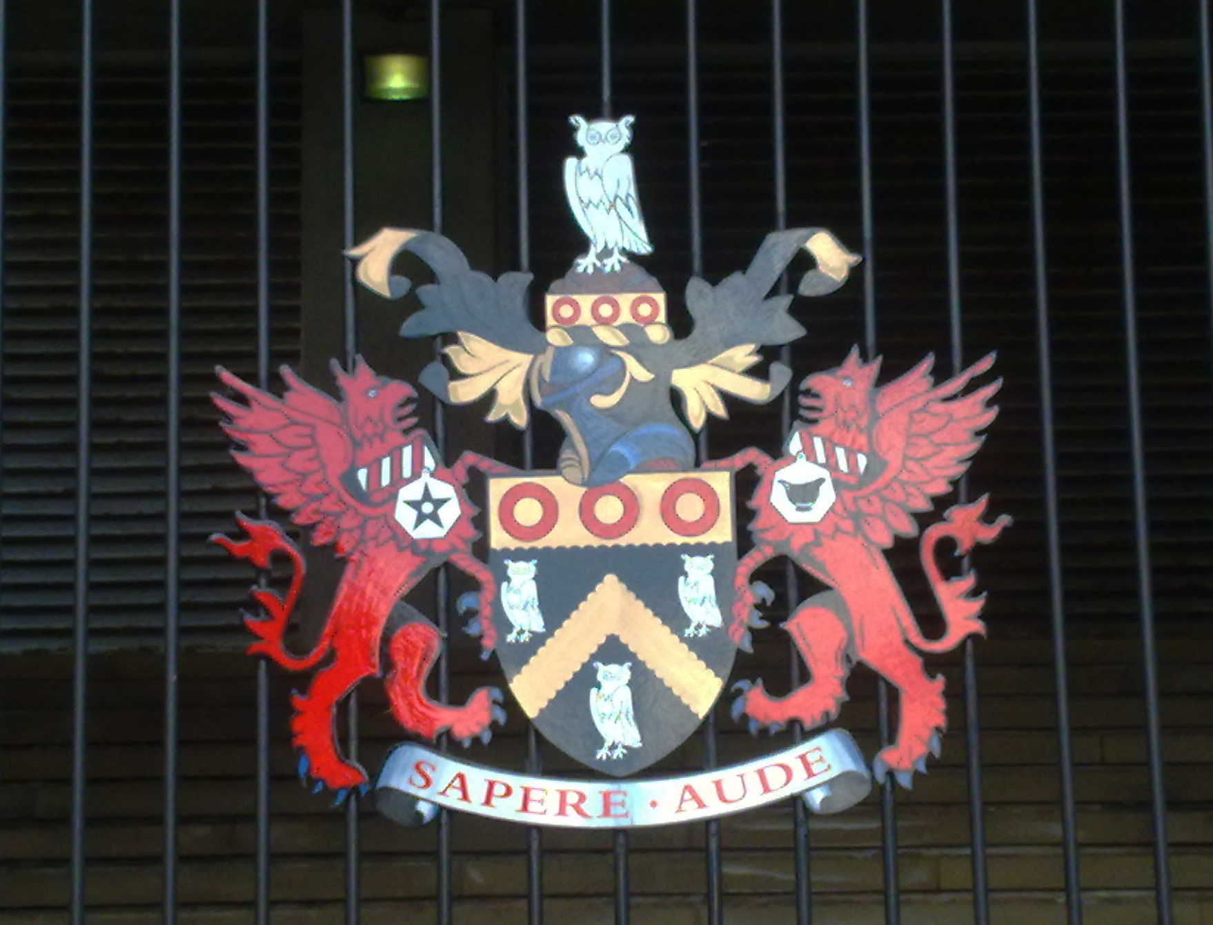 Coat of arms of Oldham Metropolitan Borough Council, as it appears at the base of The Civic Centre in central Oldham. They are a variant of the canting arms ("owl-dham") of Hugh Oldham (d.1519), Bishop of Exeter, founder of The Manchester Grammar School and Corpus Christi College, Oxford.